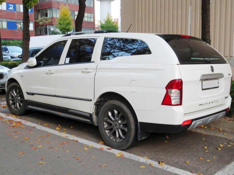 ssangyong korando sports